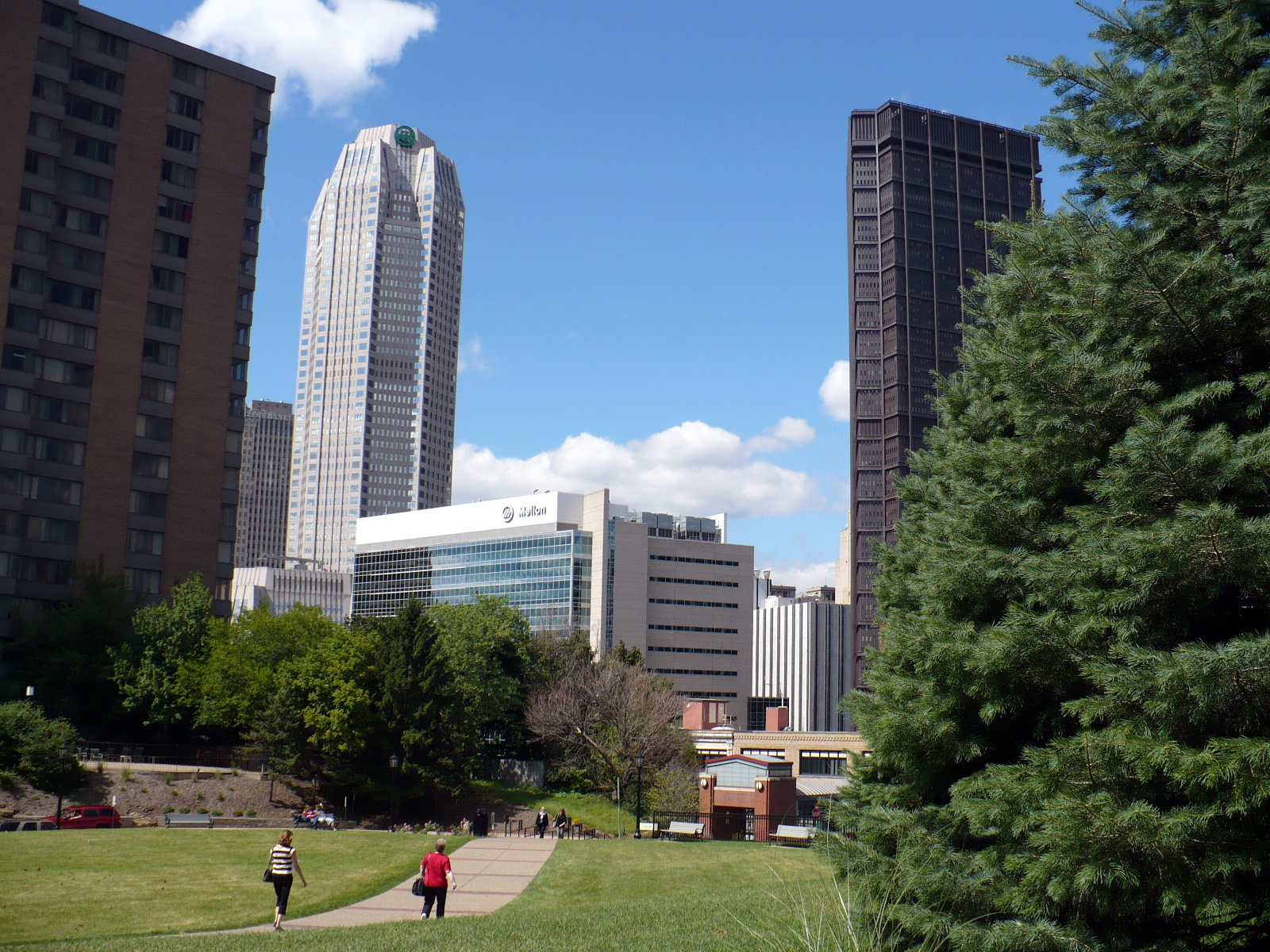 Duquesne University's view of the Pittsburgh skyline.